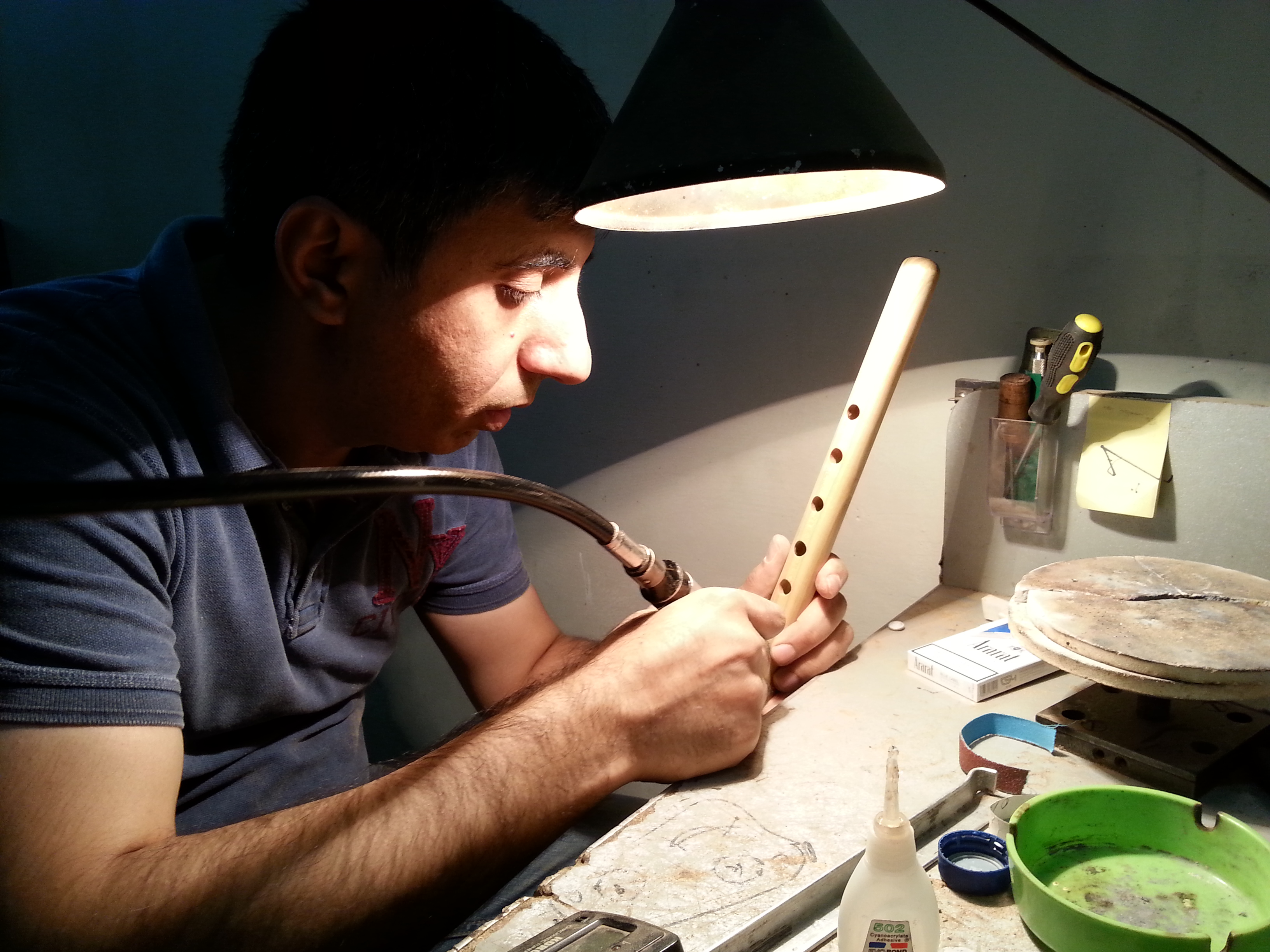 Armenian duduk maker Arthur Grigoryan